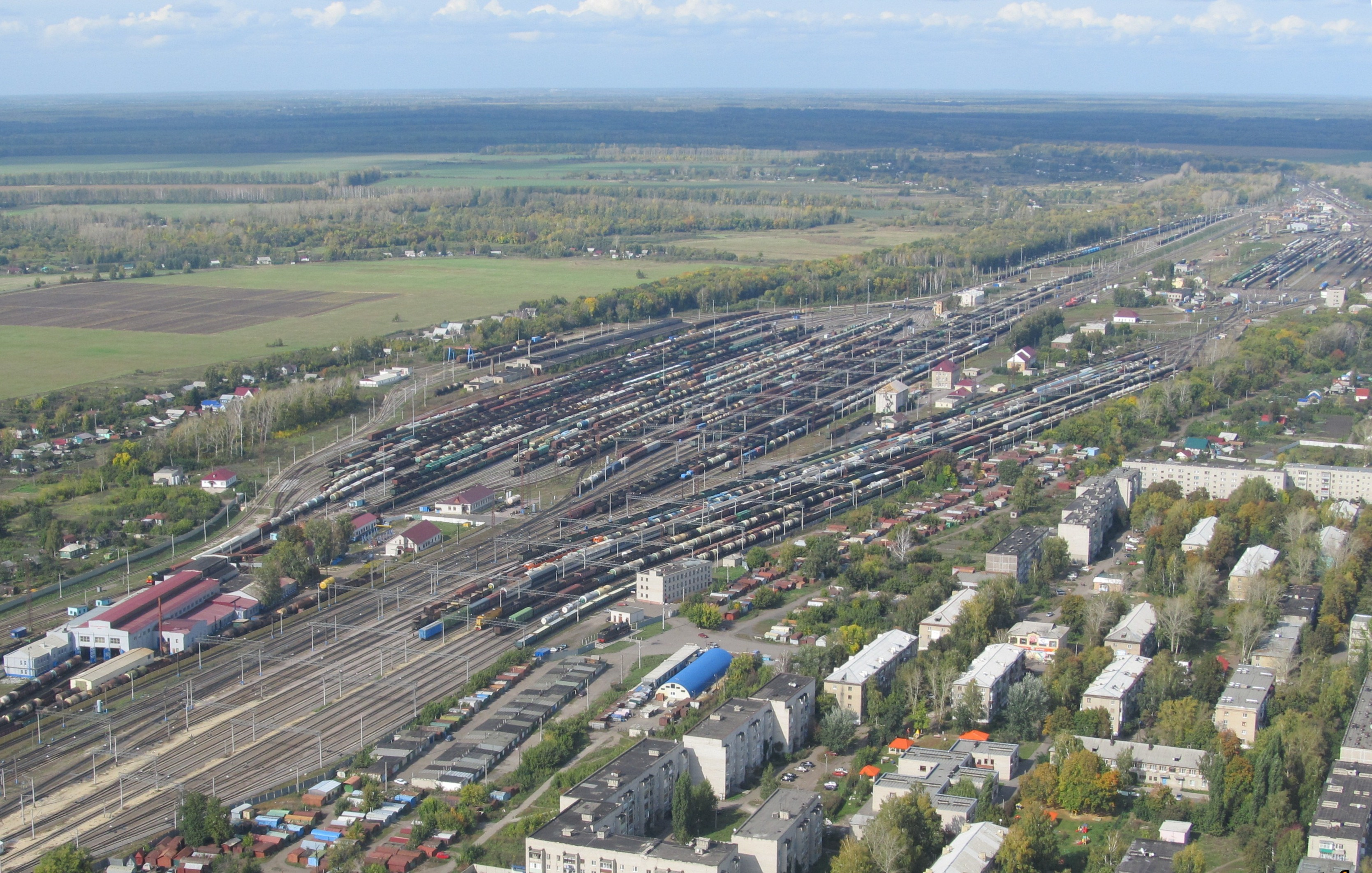 Freight station north of Michurinsk in 2011.